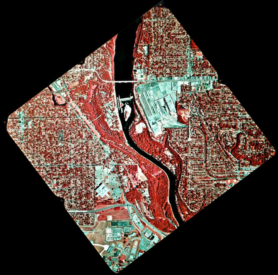 1994 infrared photo of the Mississippi River between Minneapolis and Saint Paul. North is up. Dark red is vegetation while bluish-green is roads, asphalt, and buildings. The Ford Parkway Bridge crosses the river just north of Lock and Dam No. 1, between the Ford Twin Cities Assembly Plant on the right, and Minnehaha Park on the left. A pooled Minnehaha Creek is the narrow dark curved shape in the upper left, becoming narrower as it crosses Highway 55 eastward into the tree-covered park. Minnehaha Falls is one-fourth of the way along a line between the creek's entrance to the park, to Lock and Dam 1. A light blue area is a parking lot and observation area which is just east (right) of the falls. The bridge southeast of the falls which crosses the Minnehaha Creek ravine provided access to the Veterans Home area, and has since been closed. Related images Rotated and cropped version Lock and Dam No. 1